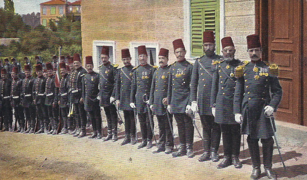 Ottoman Infantry Officers and men in Istanbul, 1897.